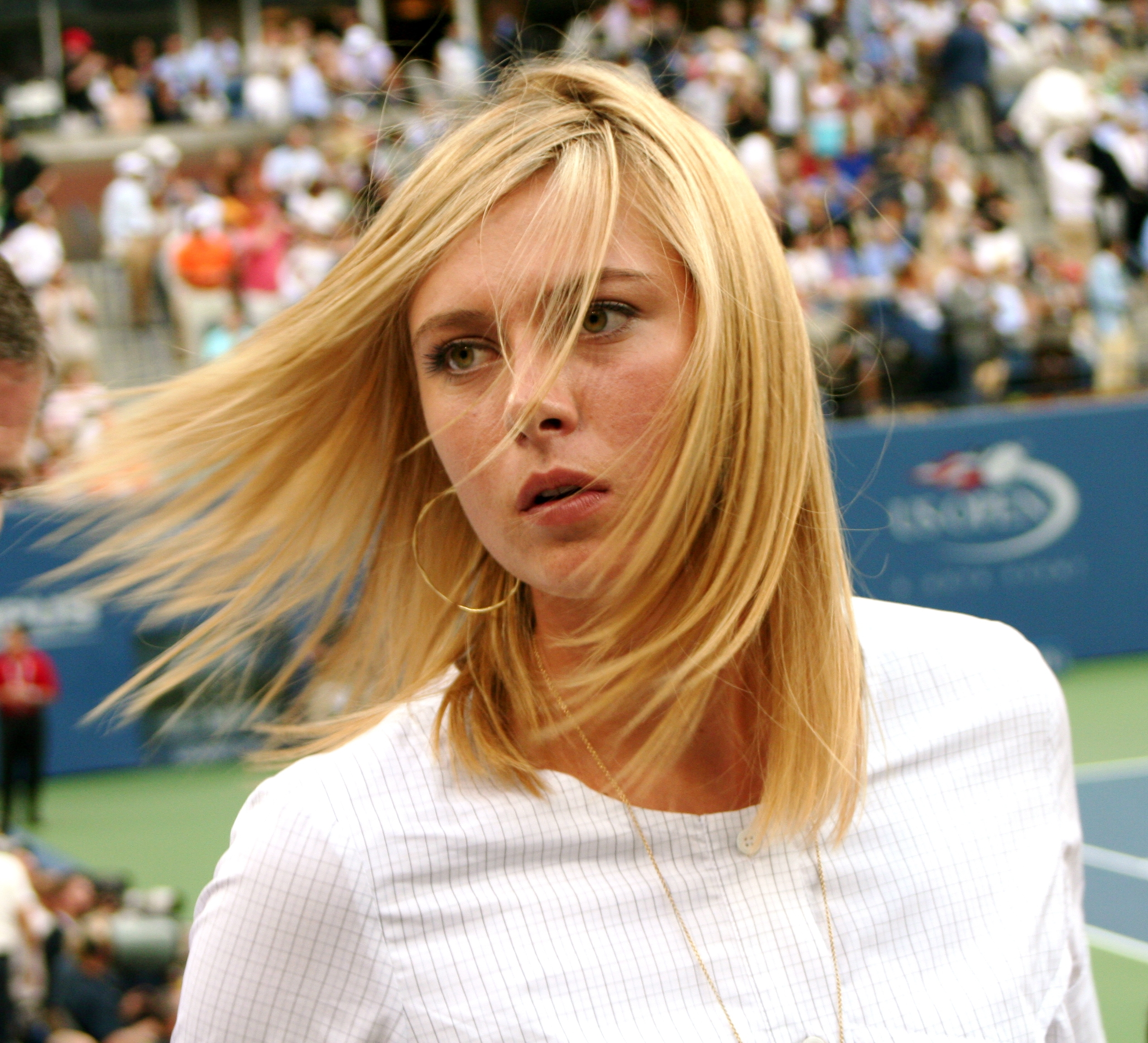 Maria Sharapova at the 2007 US Open - She was with Novak Djokovic's family and entourage (Cropped)